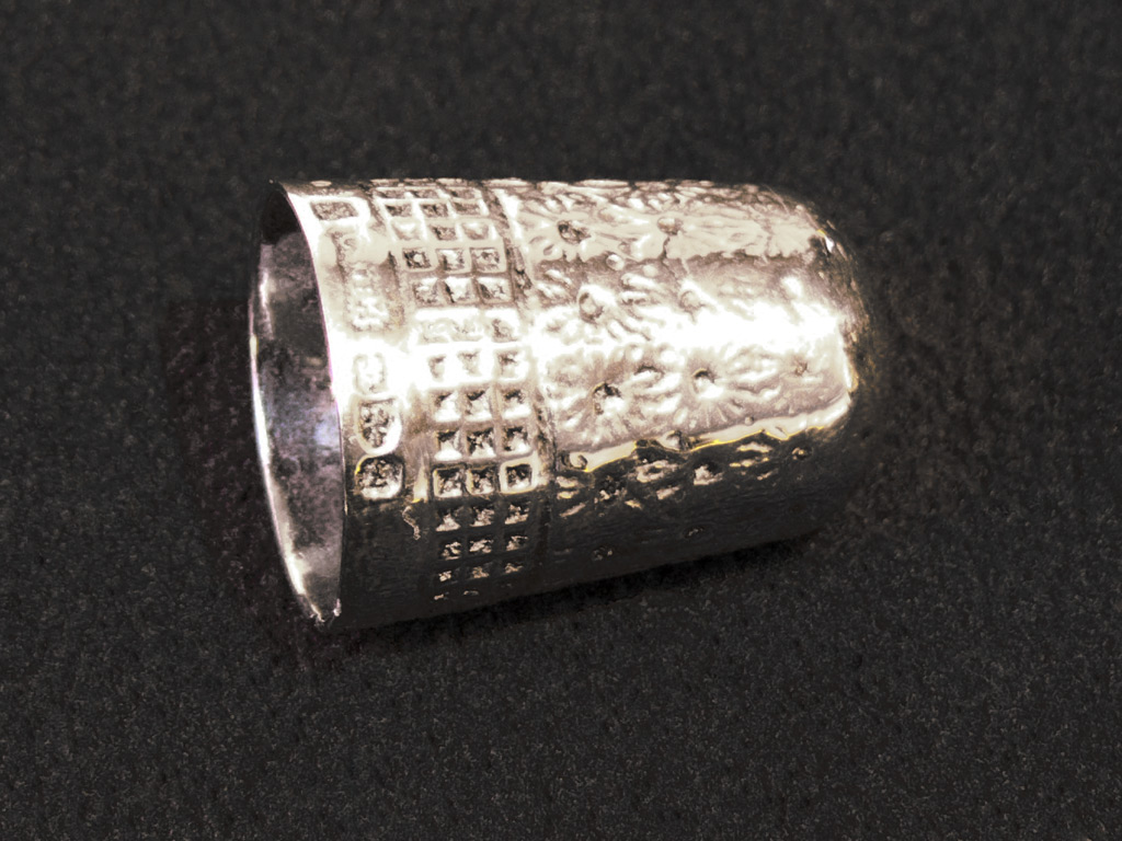 A silver thimble dating from the nineteenth century. The thimble is 24mm long and has an 18mm diameter at the base. It is typical of thimbles made by Charles Horner of Yorkshire. It has a domed top which, along with the upper half of the walls, is decorated with flower motifs. The lower part of the walls have a waffle pattern and then a plain band on which are the hall marks and makers marks. This object was recorded from a photograph and details kindly provided by the finders. The marks are not clear in the photograph. There is an almost identical thimble on page 60 of “The Collector’s Guide to Thimbles” by B McConnell (1996).